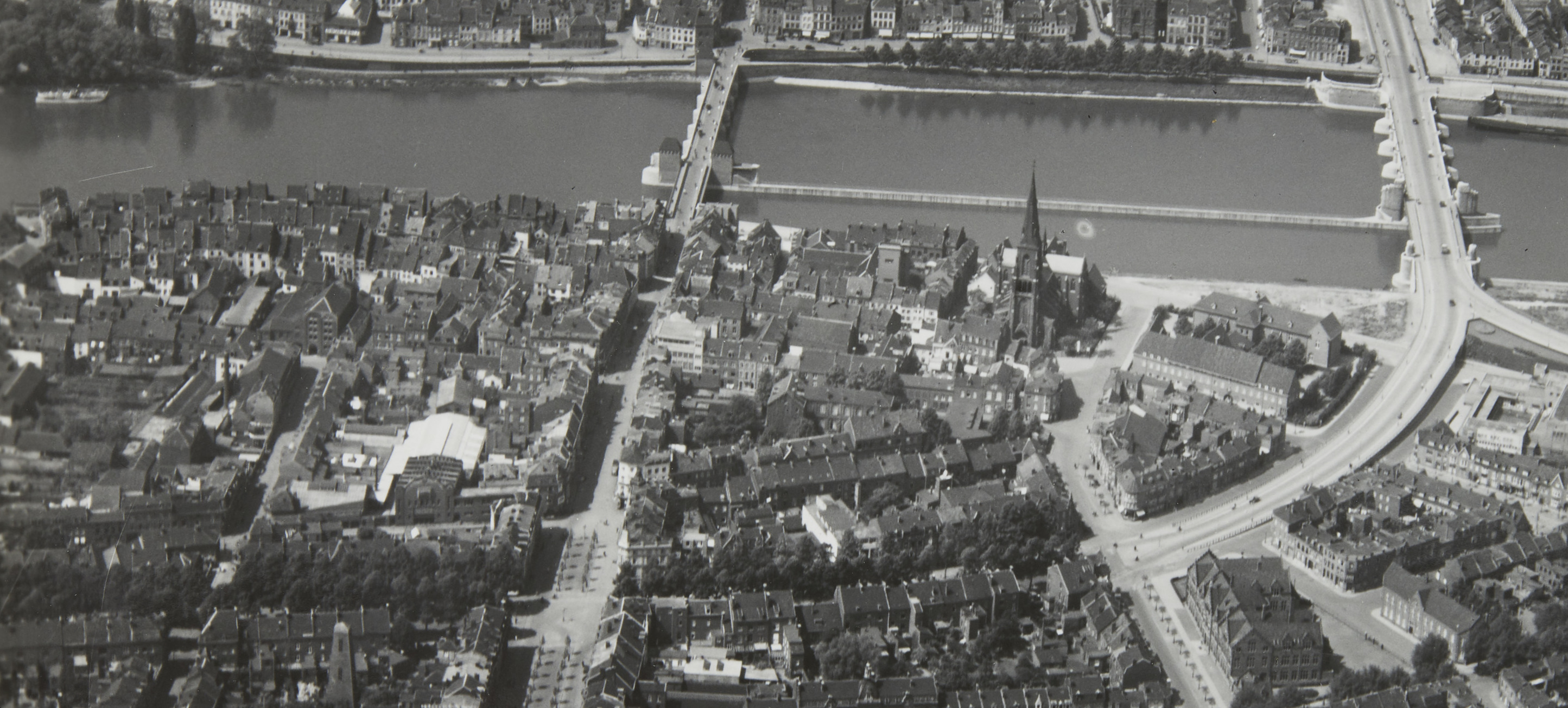 Aerial photograph of Maastricht, The Netherlands.